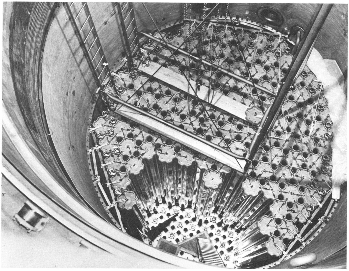 This is a view of the nuclear core in the Hallam Nuclear Power Facility during construction. The moderator assemblies were scalloped cans of graphite and fuel assemblies and control assemblies fit in process tubes between them.